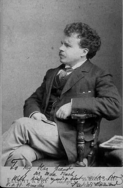 Photographie de Frederic Lamond en 1898, avec texte de dédicace : To my dear friend Mr. Max Ibach, with kindest regards and best wishes from Frederic Lamond. 8.11.1898, Bruxelles.